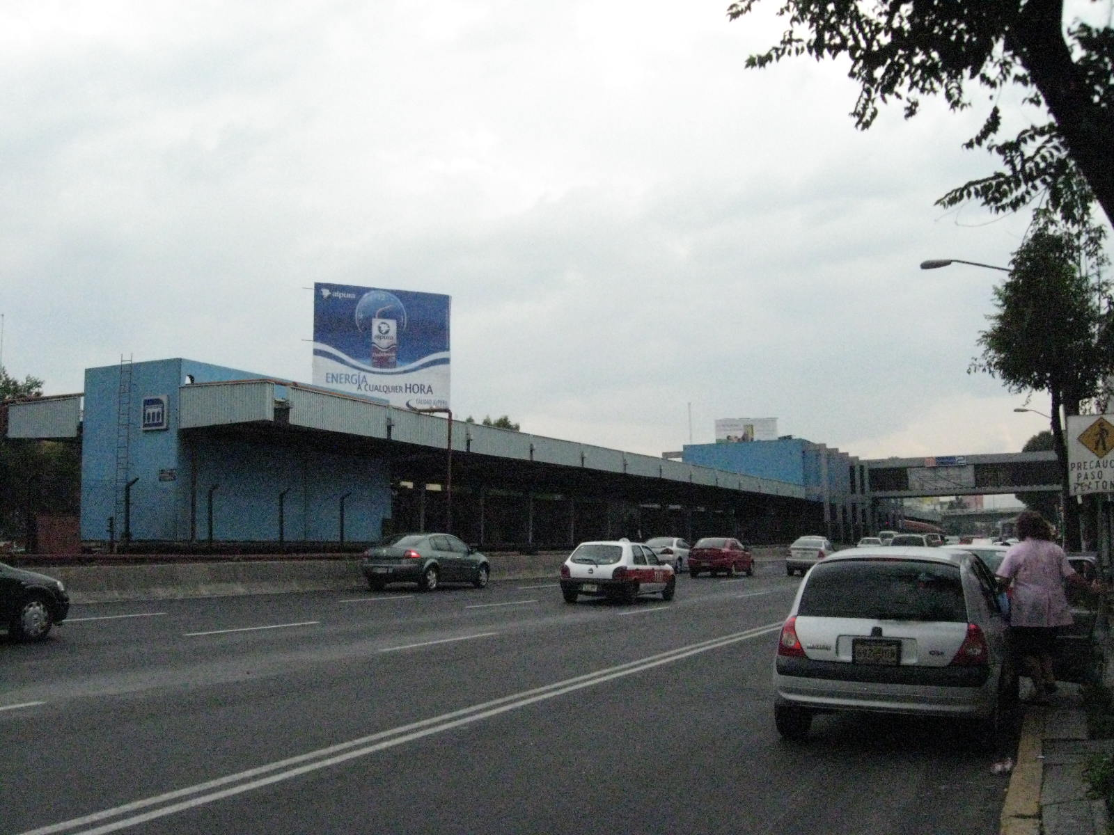 Metro Portales Station of Line 2 in Mexico City